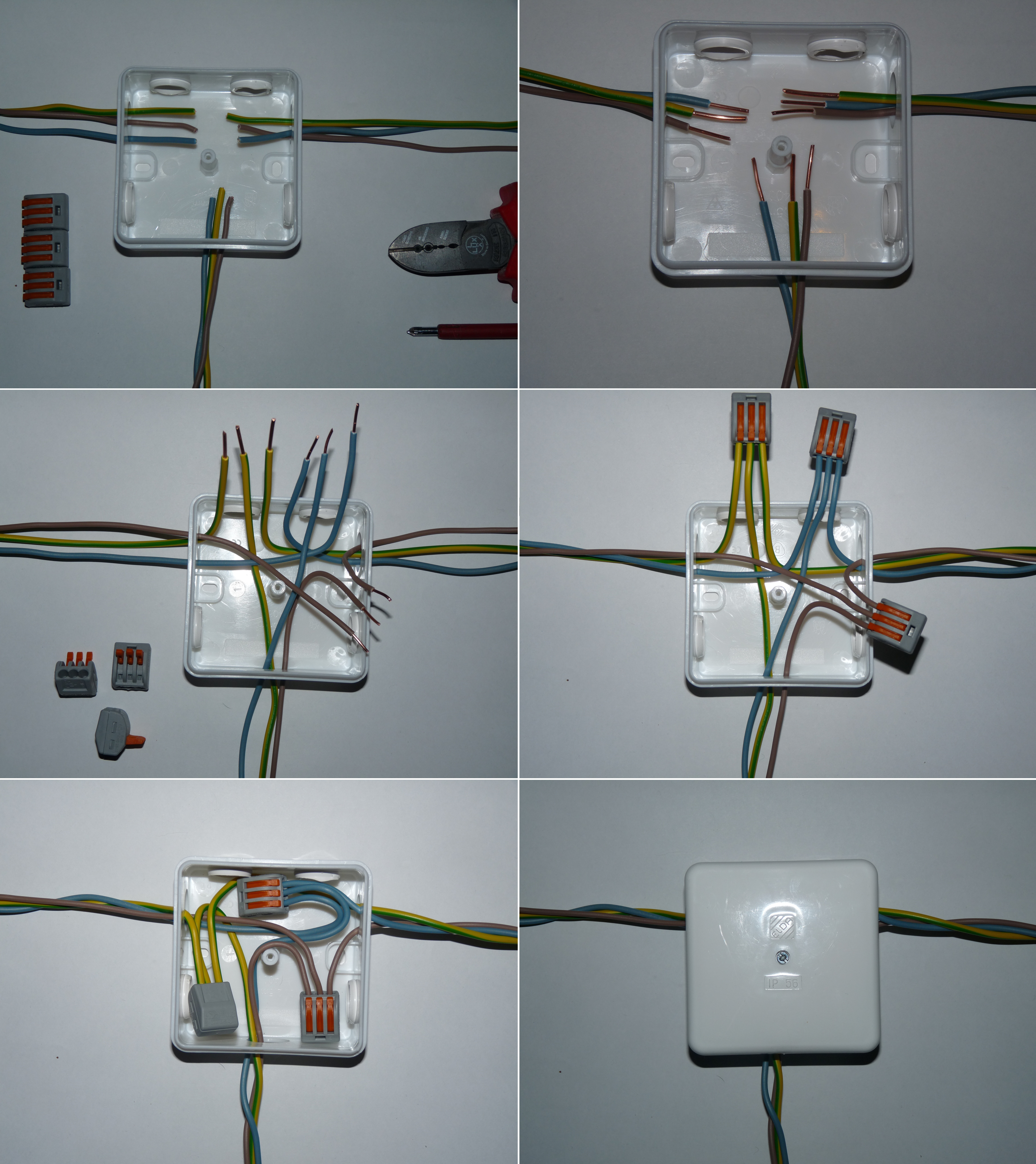 My favorite wiring way, less than 5 minutes have been spent for completing work. NB! Use color codes valid in your region! NB! Turn power off before work!